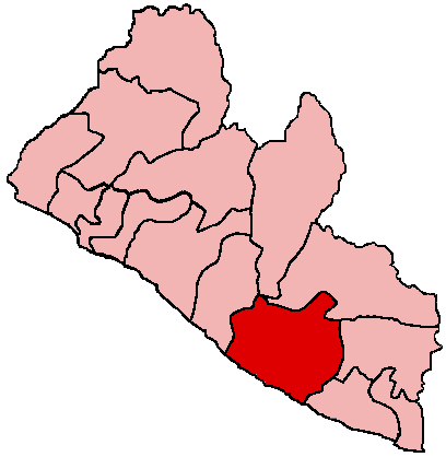 Map of Liberia showing Sinoe County; created with the GIMP. Made by User:Acntx.